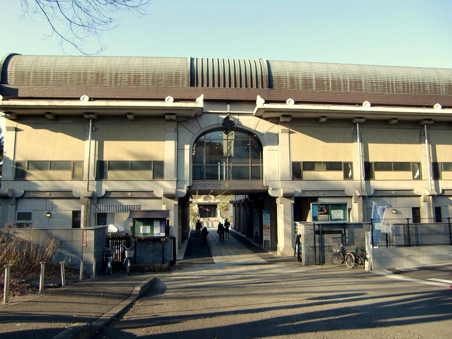 Tsukiji- Honagn-ji Wadabori byosho entrance, Tokyo Japan.